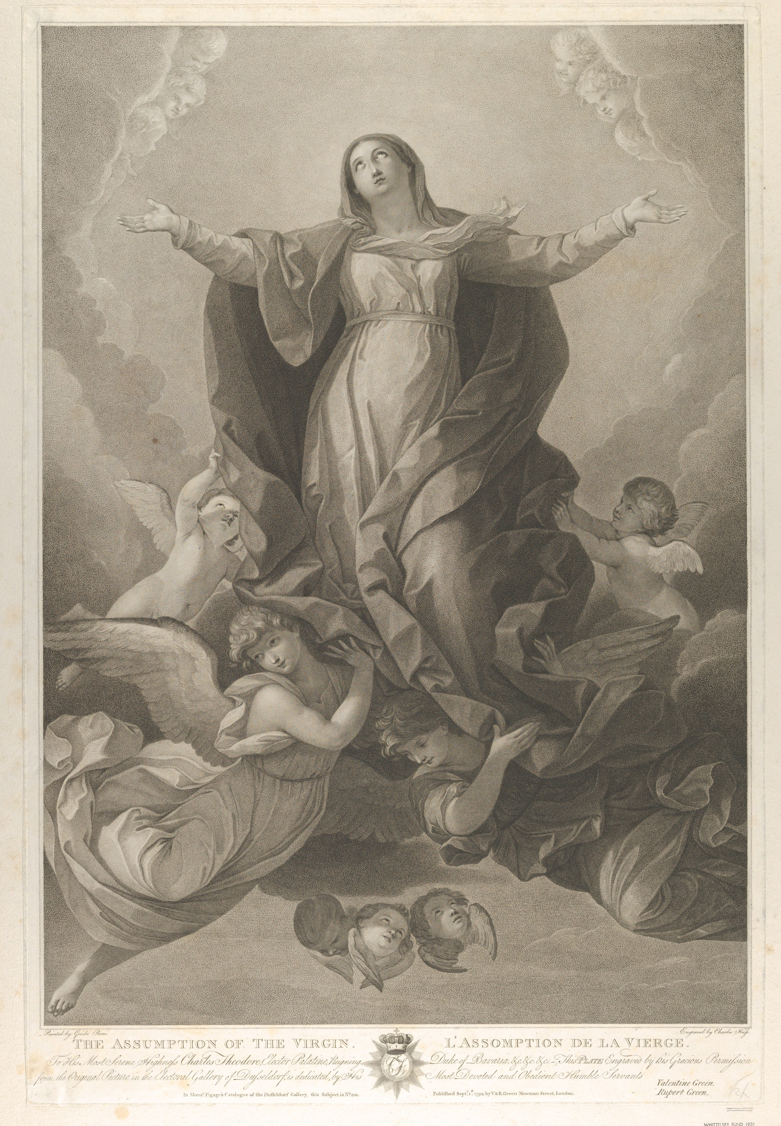 Print; Prints